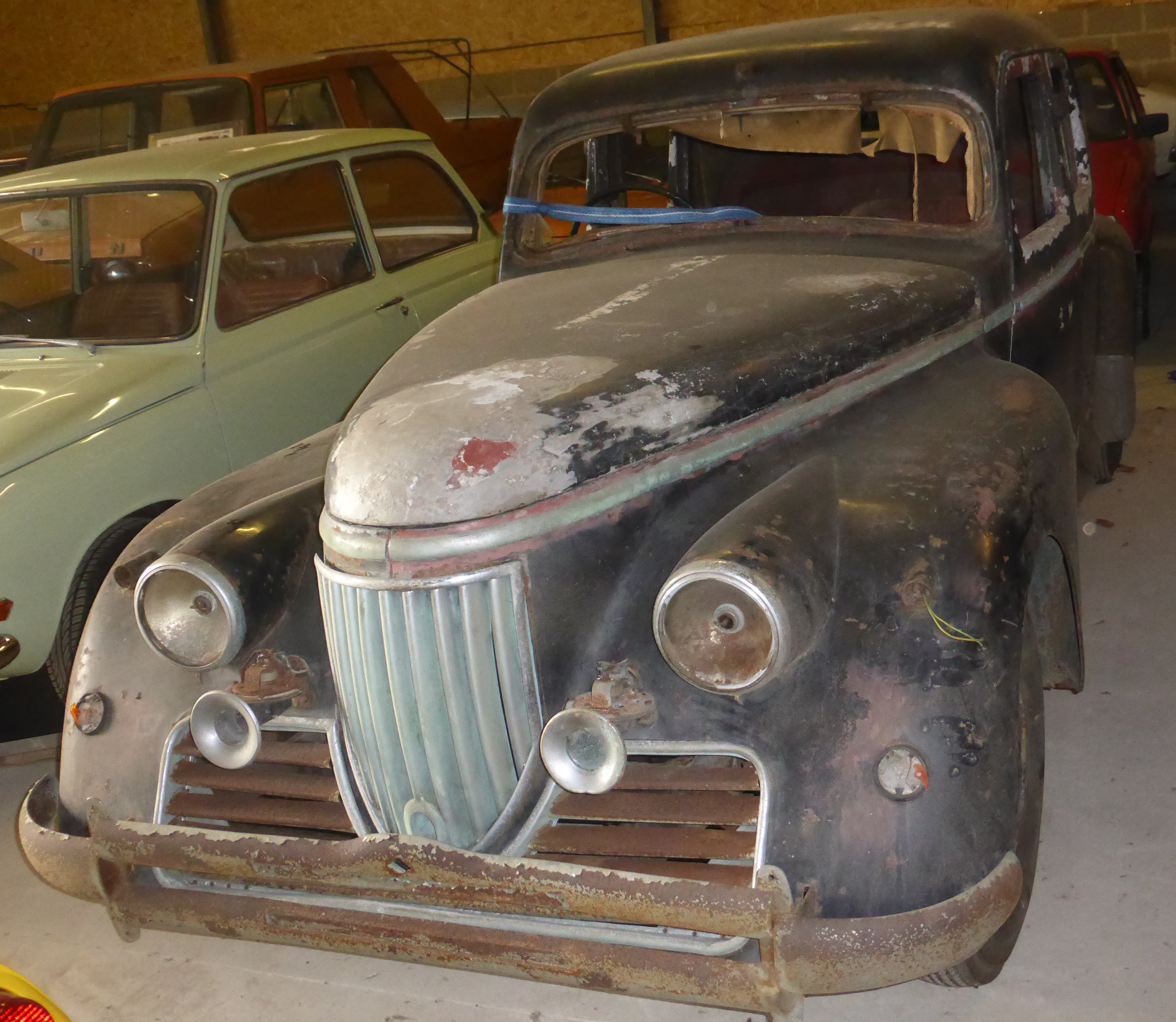 It's the Murad!